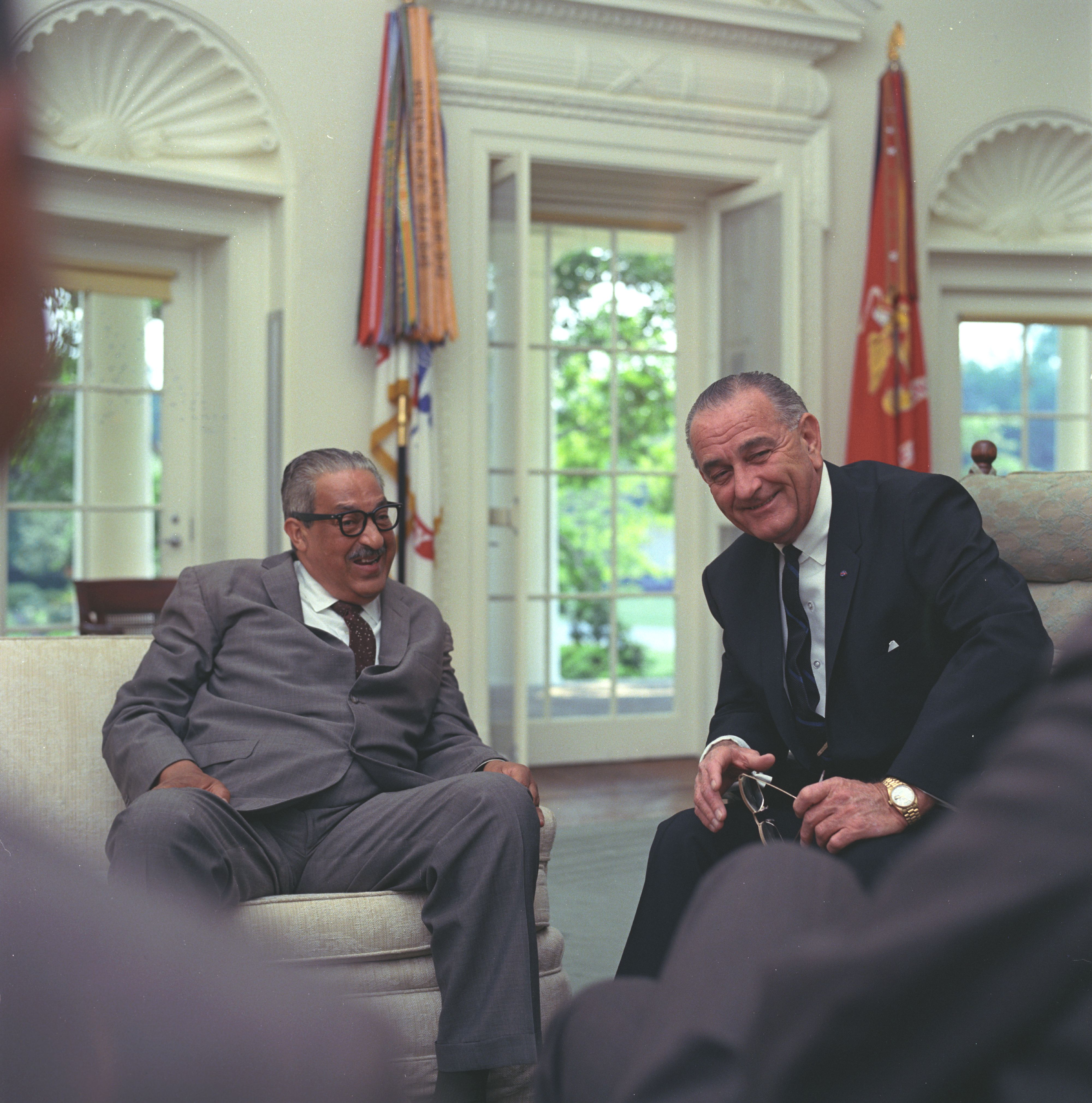 Hon. Thurgood Marshall and President Lyndon B. Johnson meeting in the Oval Office regarding announcement of Marshall's nomination as an Associate Justice of the Supreme Court of the United States.